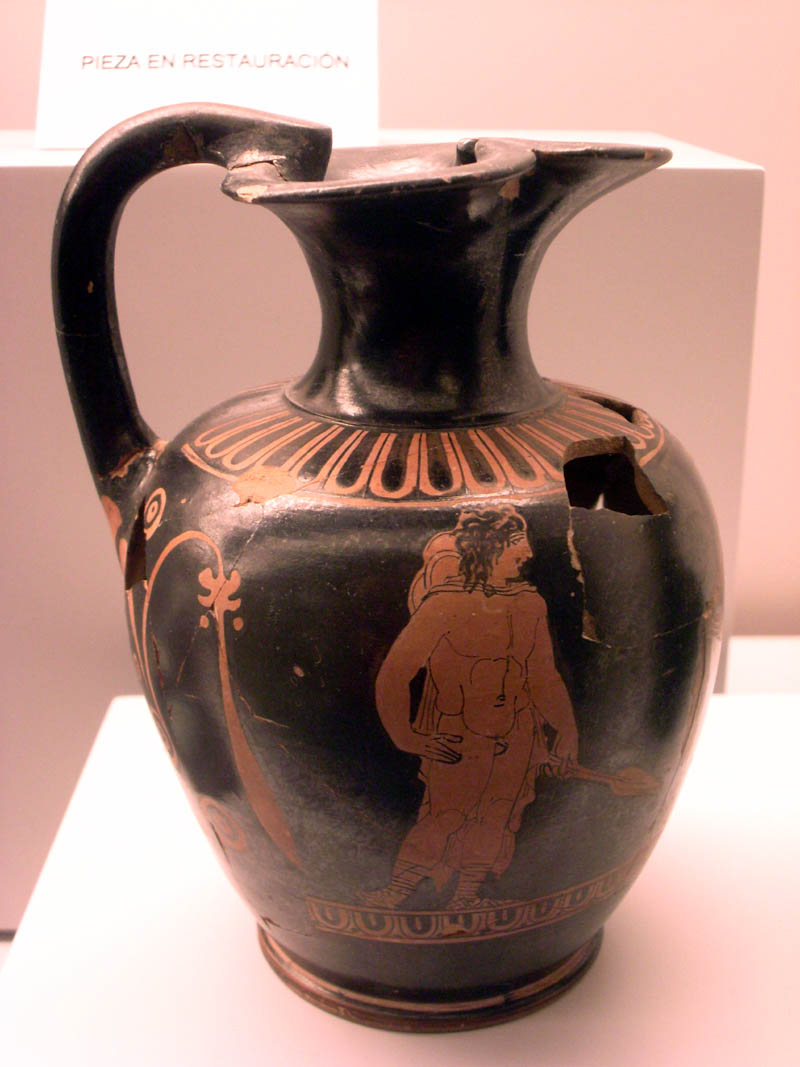 Greek oinochoe found in Alcantarilla (Region of Murcia). 5-4 c. BC. Archaeological museum of Murcia.